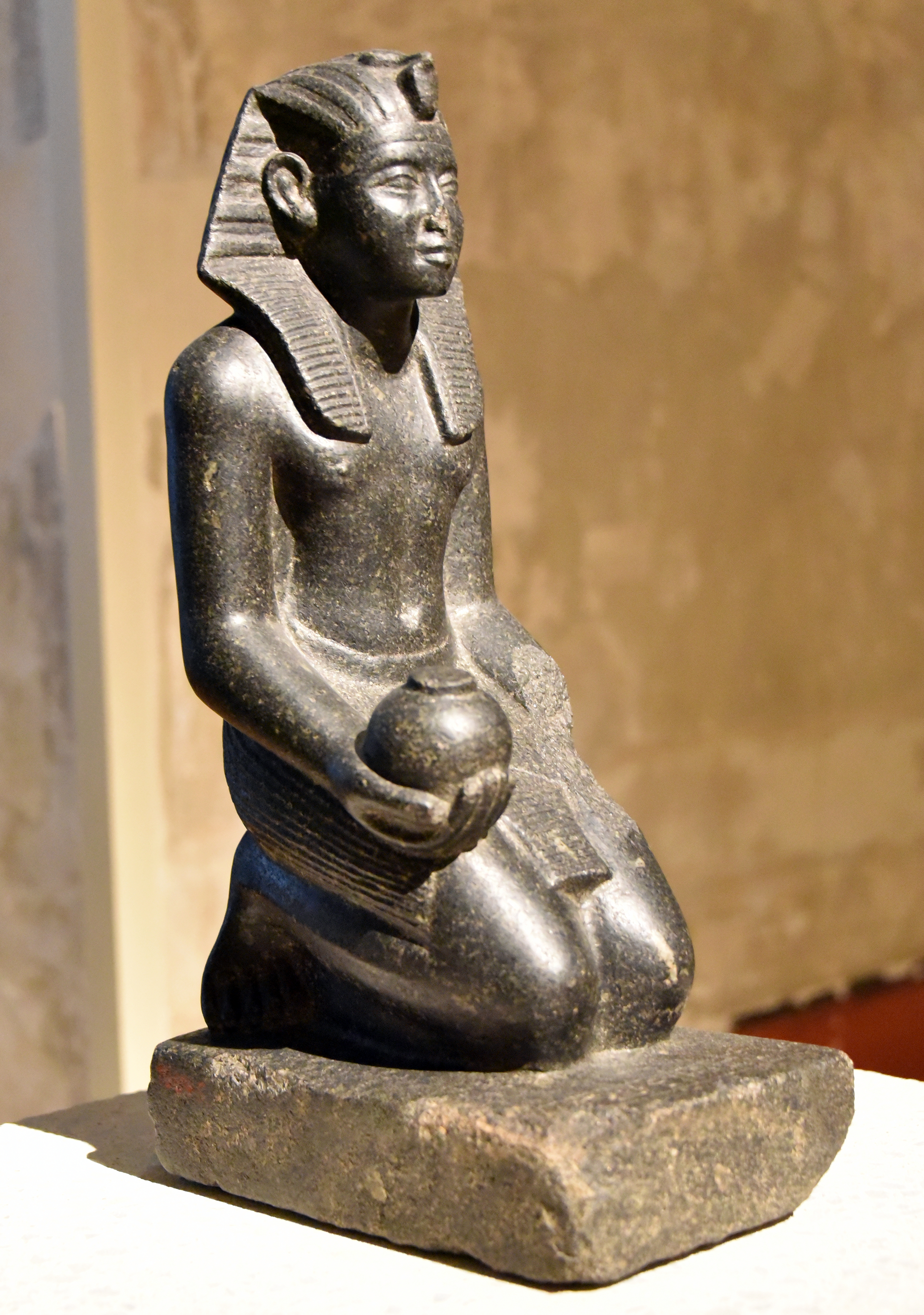 Kneeling figure of Sobekhotep V, holding ointment vessels (the left is lost). From Egypt. Second Intermediate Period, 13th Dynasty, c. 1750-1700 BCE. Neues Museum, Berlin, Germany. Granite, ÄM 10645.